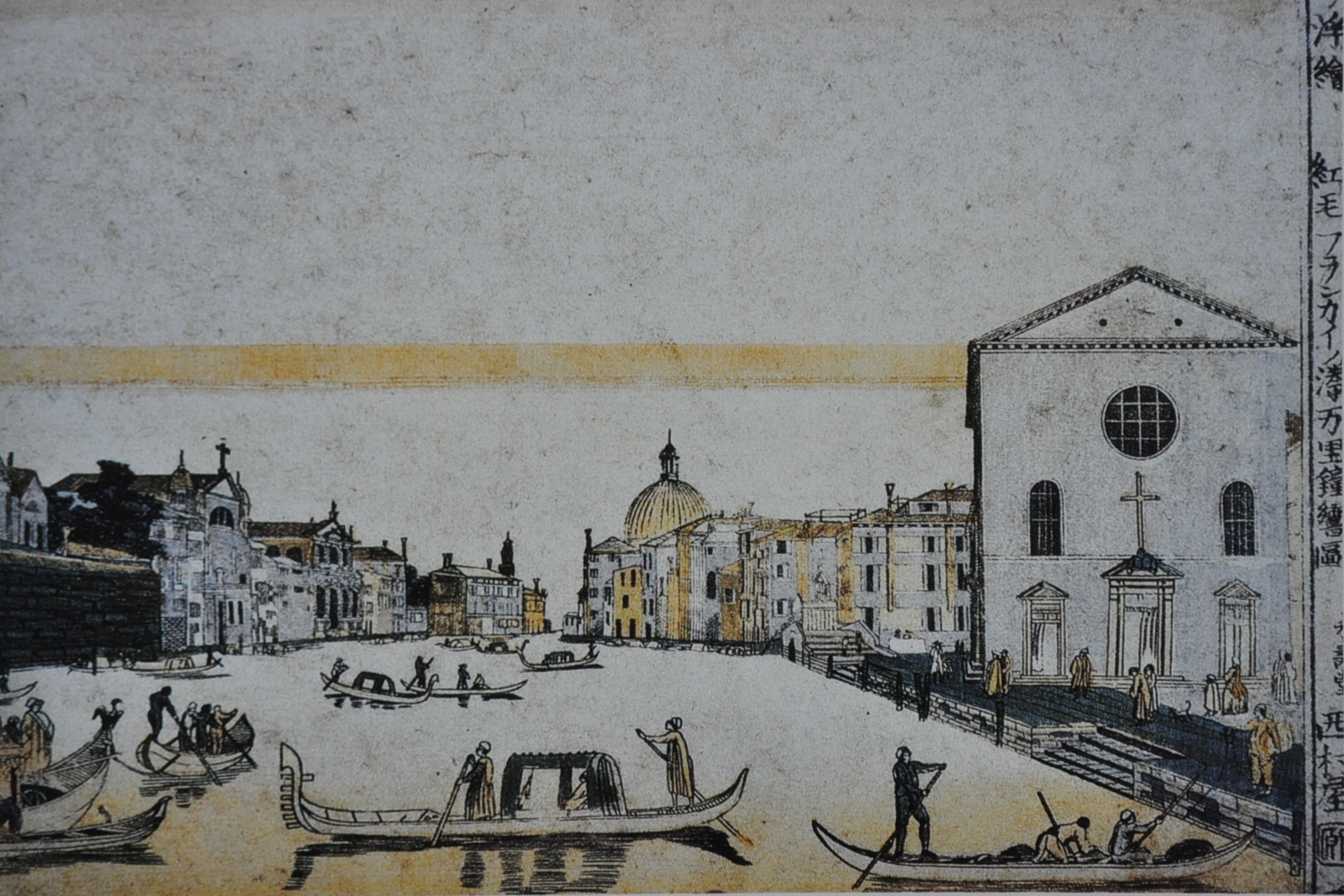 Print by Toyoharu, copied from Venetian painters and showing the Grand Canal in Venice. Around 1750.